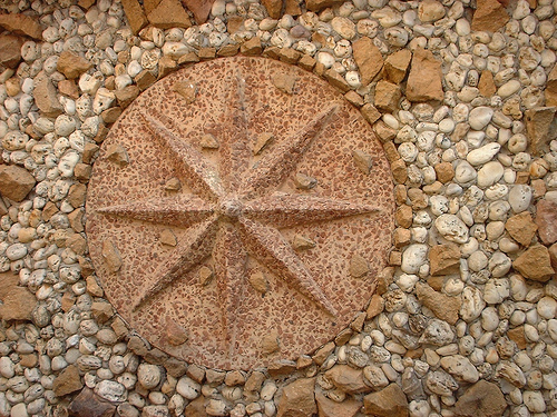 Garden named Rosa Mir in Lyon in France - detail